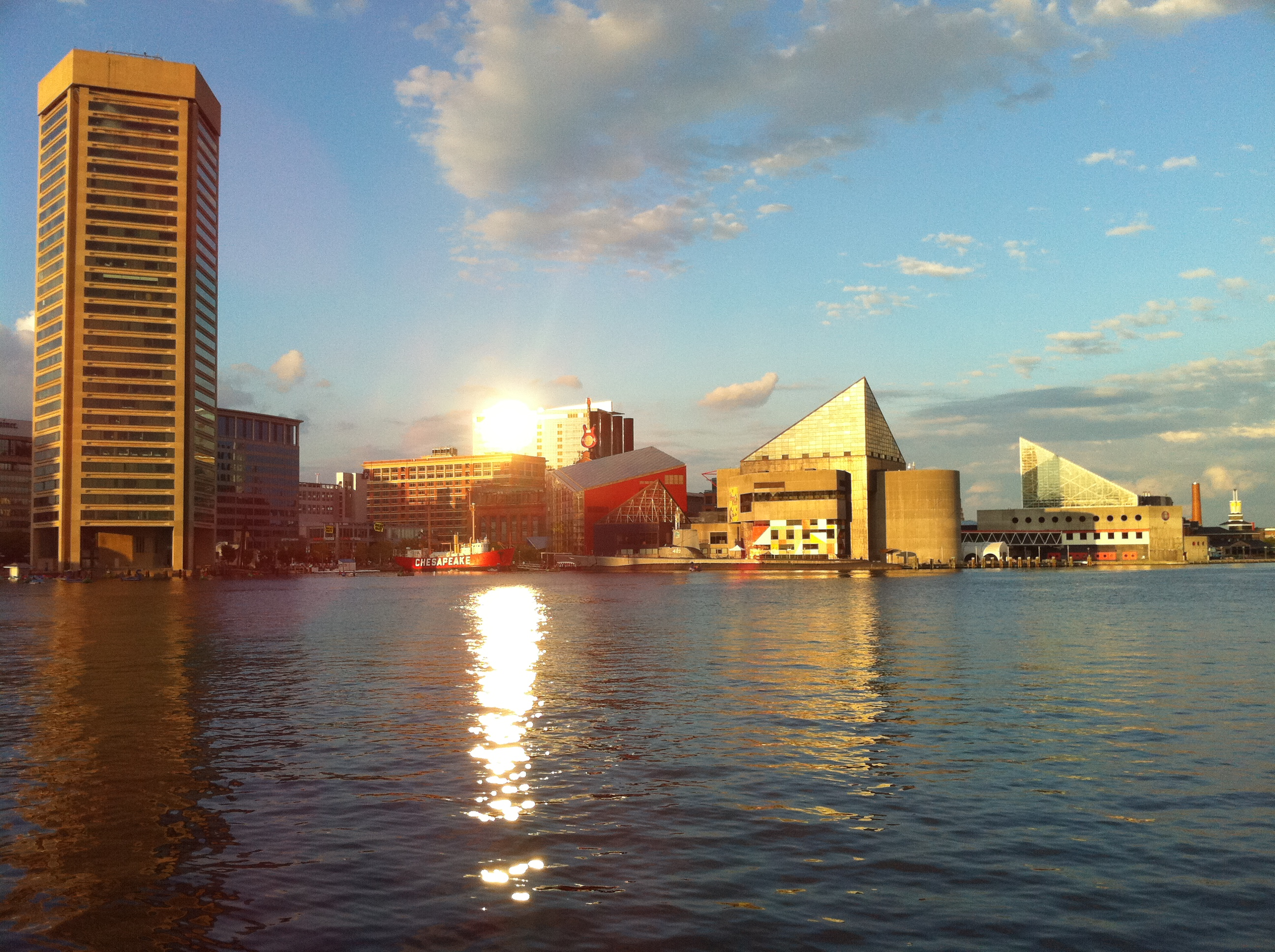 One of the finest view from Inner Harbor.